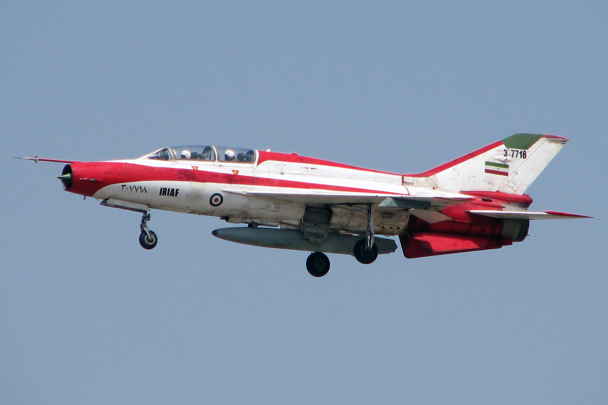 A IRIAF Chengdu FT-7 with a rare colour (in Air Force of Iran) landing at Mehrabad International Airport.